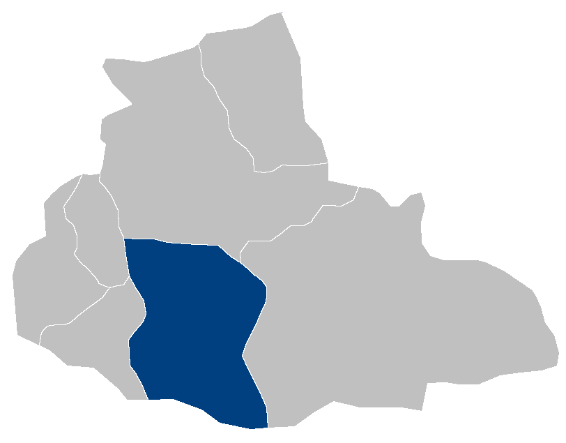 Location map for the Qadis District of Badghis Province, Afghanistan. Original map source: Image:Badghis districts.png